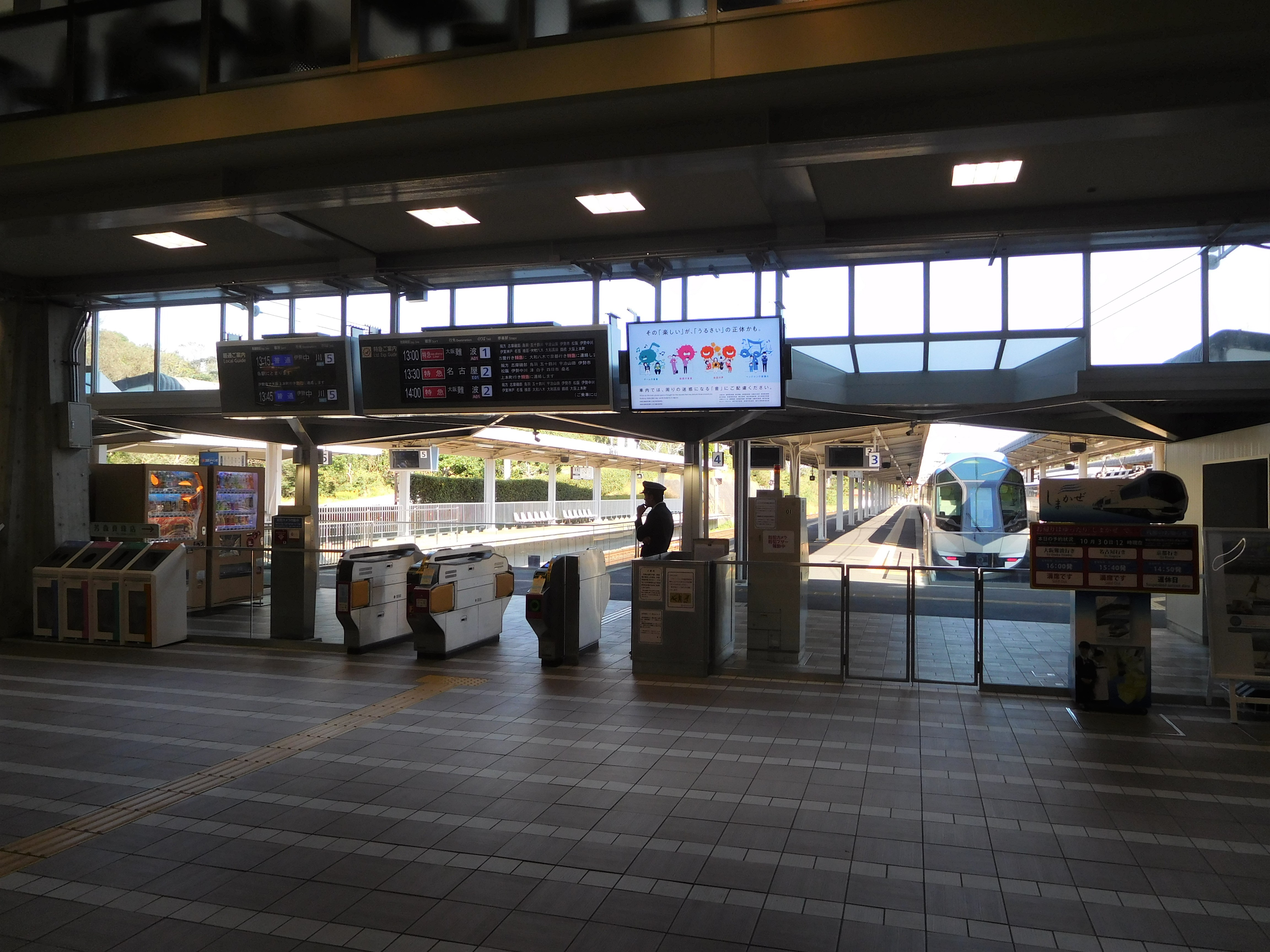 Ticket gate of Kashikojima station in Shima, Mie, Japan.